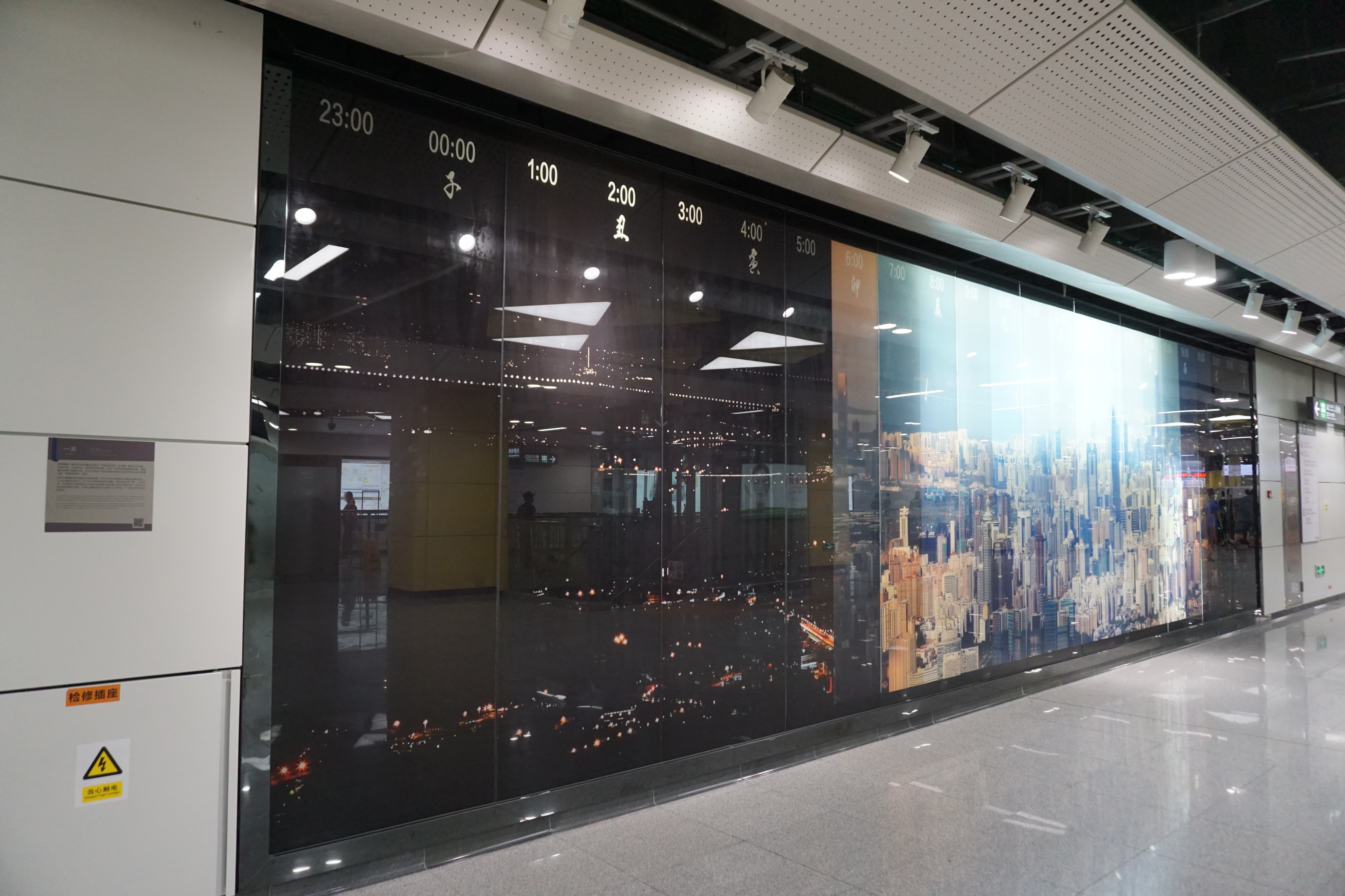 Chiwei Station in Futian District, Shenzhen.